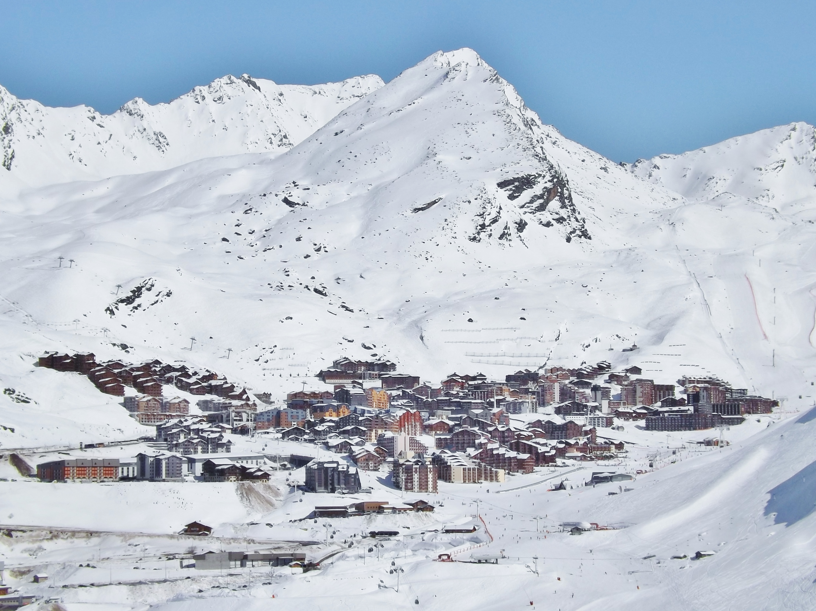 Sight of Val Thorens village, from the western part of the ski resort, in Savoie, France.